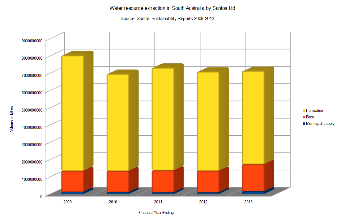 Graph showing oil and gas company Santos Ltd's water extraction within South Australia for the financial years ending 2009 to 2013. Data sourced from Santos Sustainability Reports.